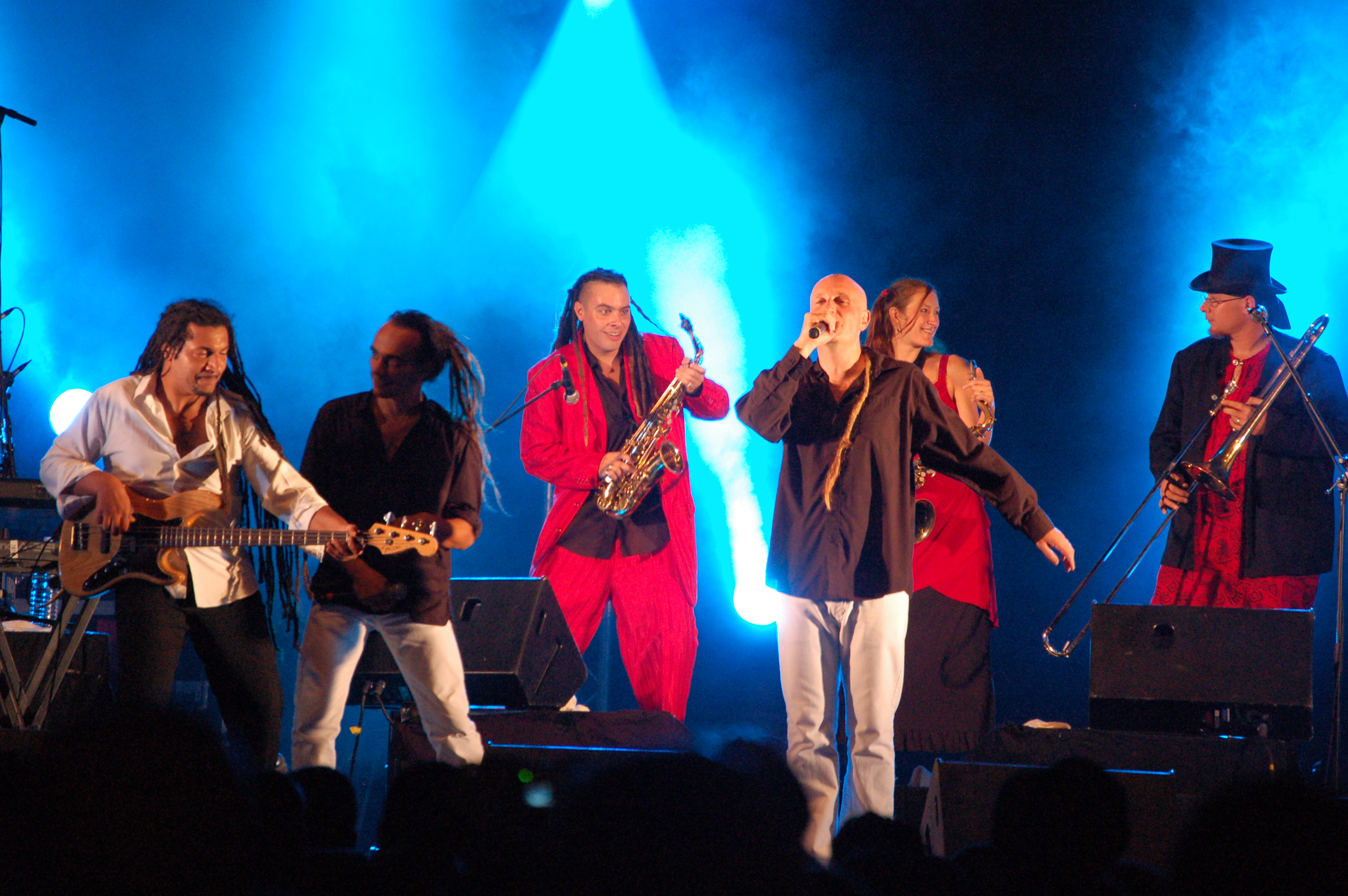 French band Sinsemilia, Live in Saint-Ouen (France), 19 september 2009.